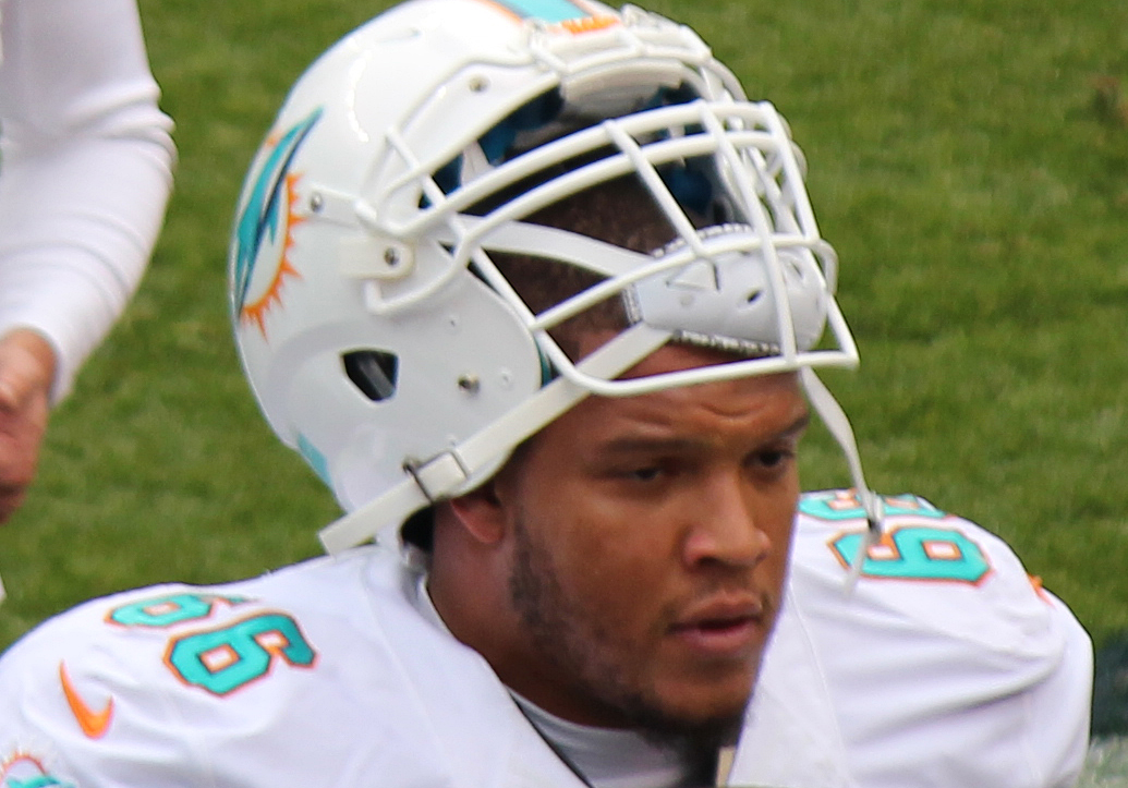 Shelley Smith, a player on the National Football League.